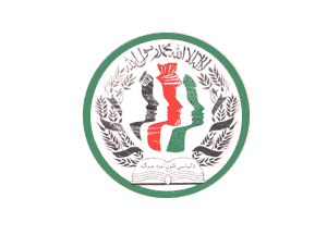 Flag of the Loya Jirga